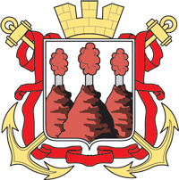 Petropavlovsk-Kamchatsky, coat of arms (N2)